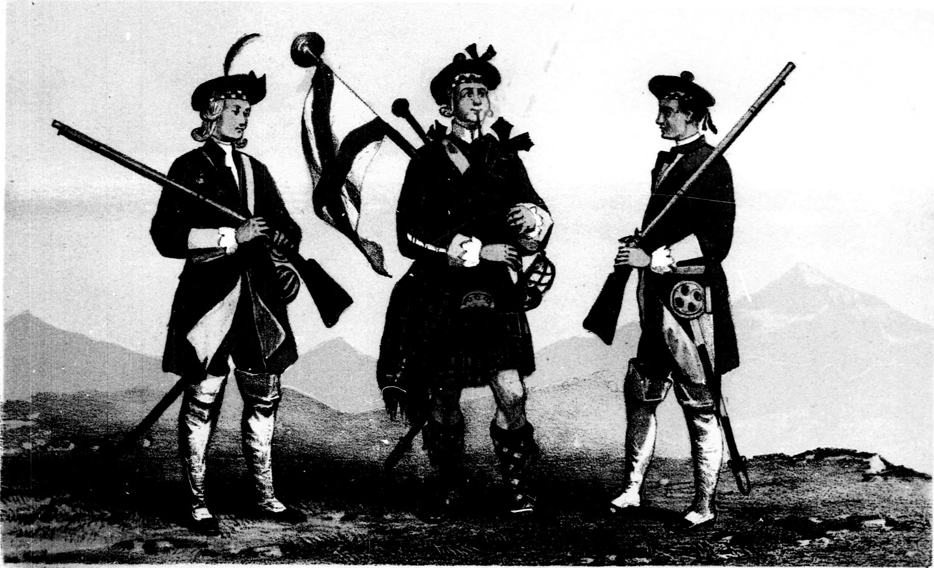 Uniform of the 26th (Cameronian) Regiment in 1713.